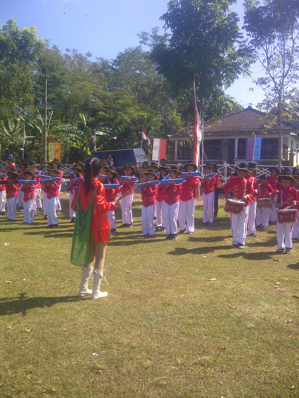 The students are performing drumbandBahasa Indonesia: Para murid sedang menampilkan drumband